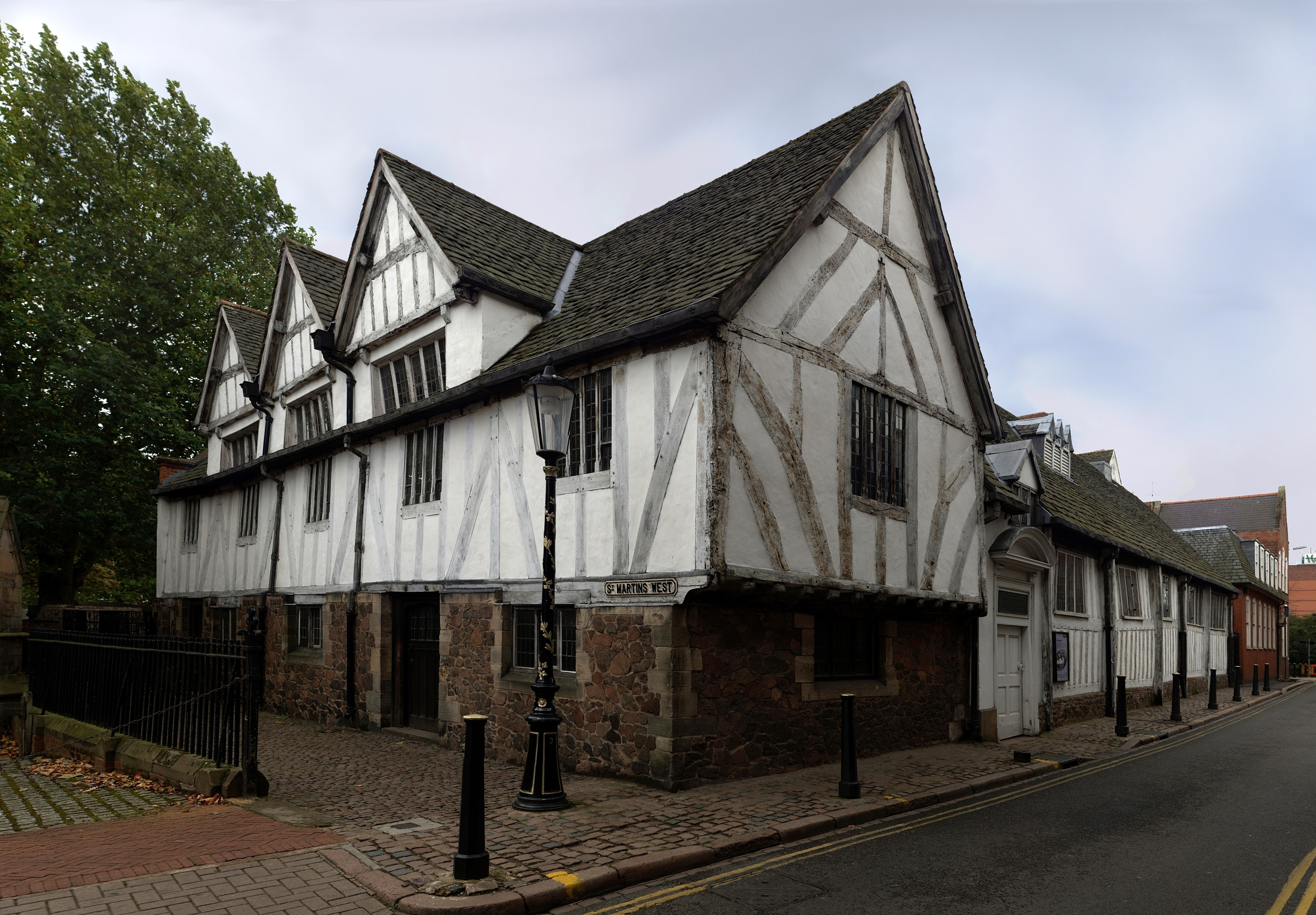 Panoramic image of Leicester Guildhall: a Grade I listed building